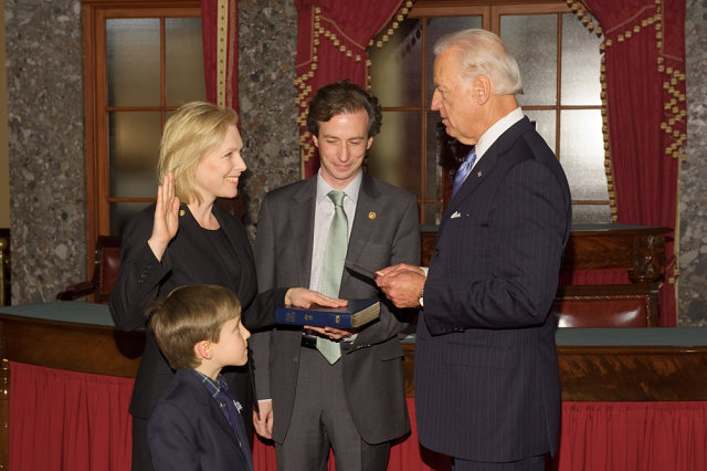 United States Senator Kirsten Gillibrand is sworn in by Vice President Joe Biden at the beginning of the 112th Congress with her husband Jonathan and son Theo looking on.